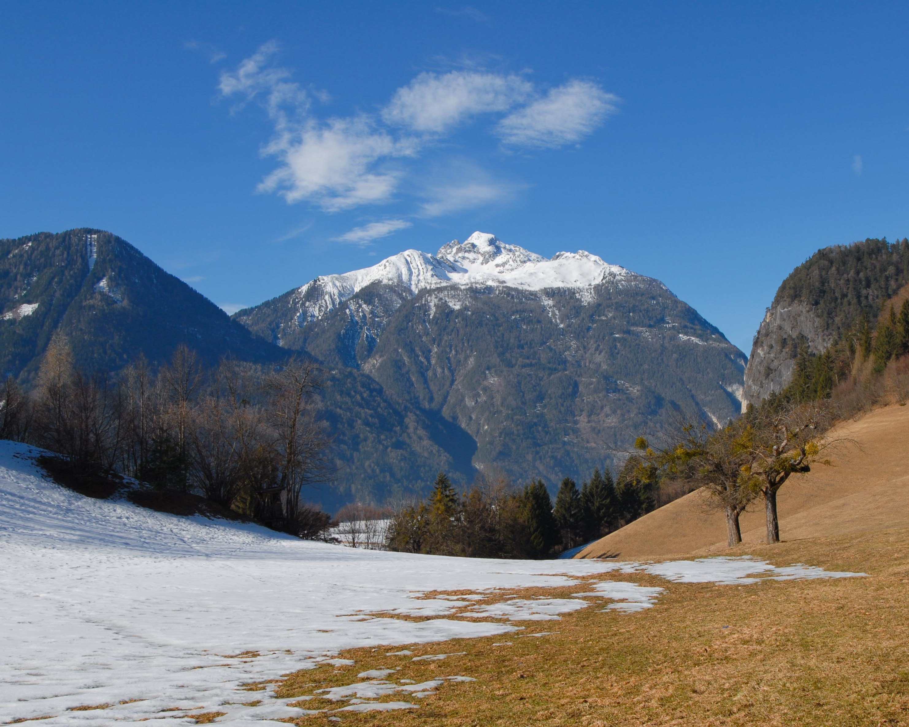 View to the mountain Hochstadel (2681 m) in the “Dolomites of Lienz” (Lienzer Dolomiten) near castle in Oberdrauburg, Carinthia, Austria.